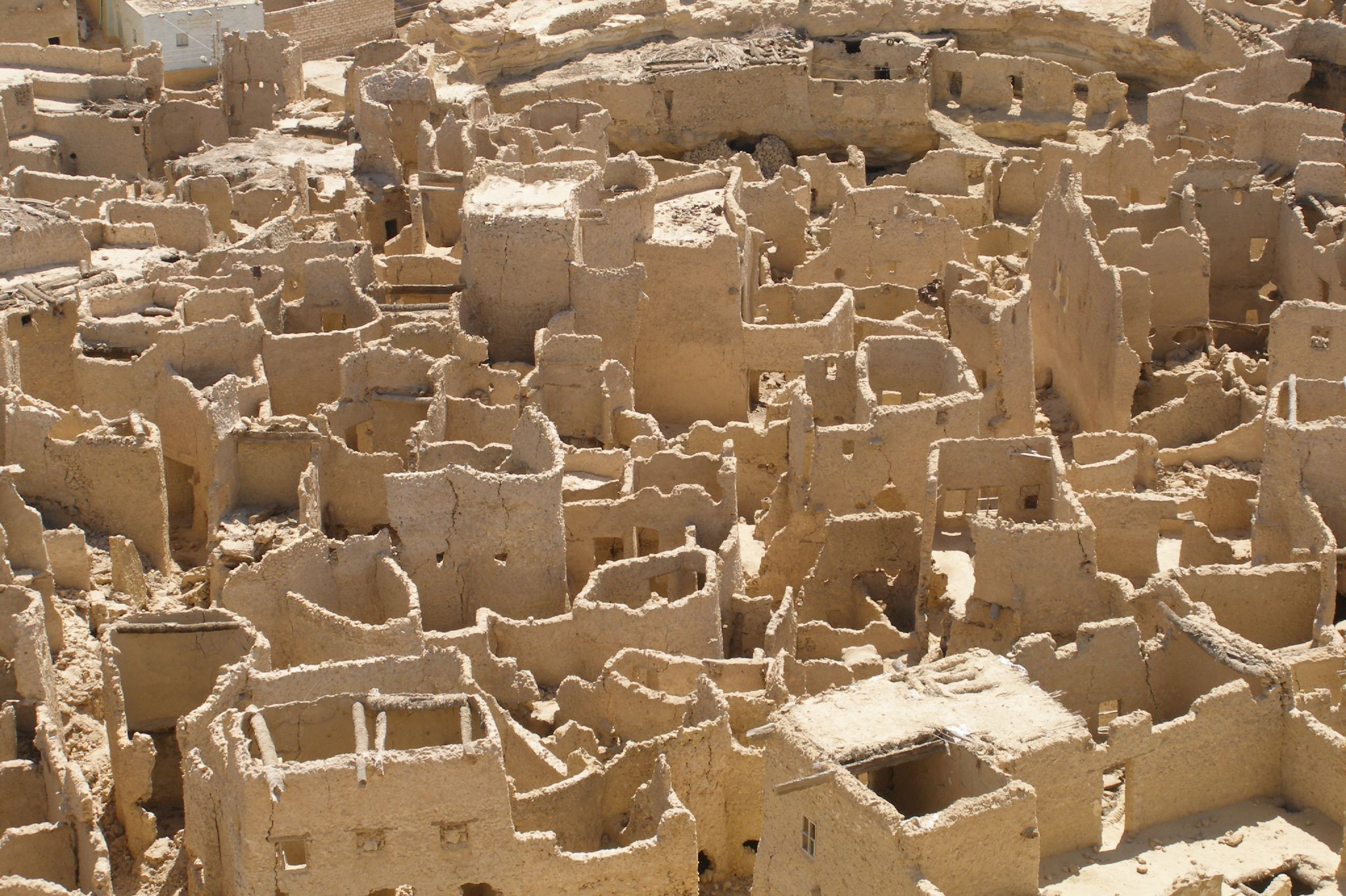 Old homes in the desert oasis of Siwa in Egypt.